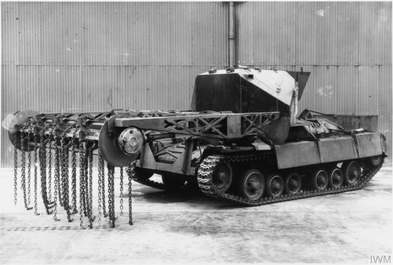 TANKS AND ARMOURED FIGHTING VEHICLES OF THE BRITISH ARMY 1939-45: Valentine Scorpion flail.